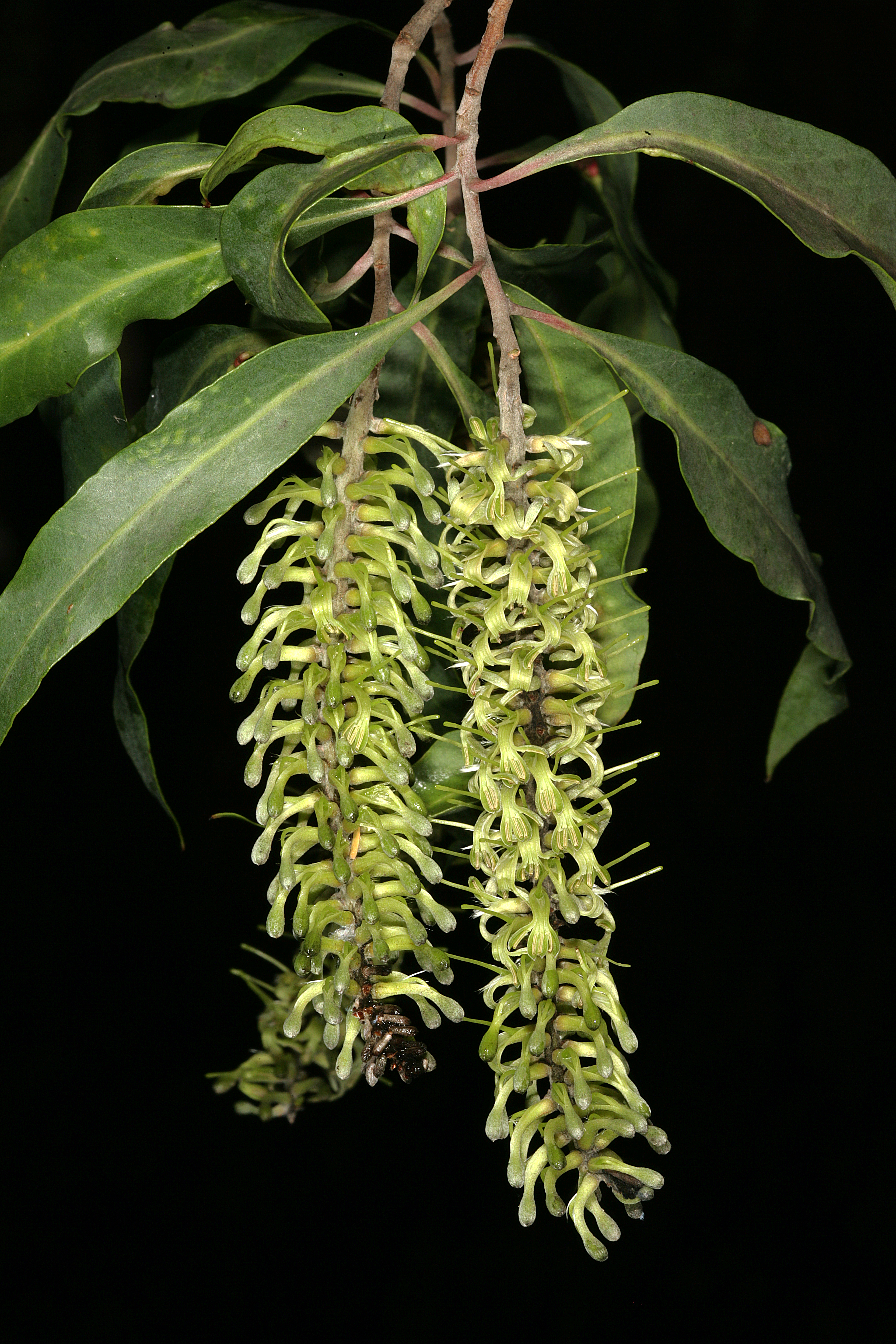 Faurea saligna; inforescences; Lowveld National Botanical Garden, Nelspruit, Mpumalanga, South Africa